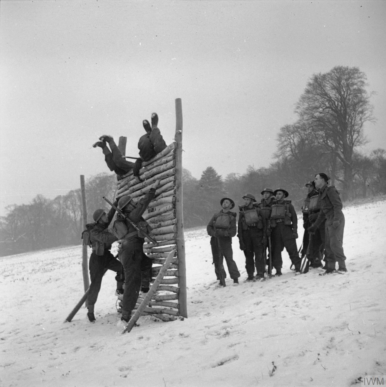 The British Army in the United Kingdom 1939-45 Soldiers from 24th Battalion, Hampshire Regiment scale an obstacle during 'toughening up' training in wintry conditions at Wateringbury in Kent, 20 January 1942.